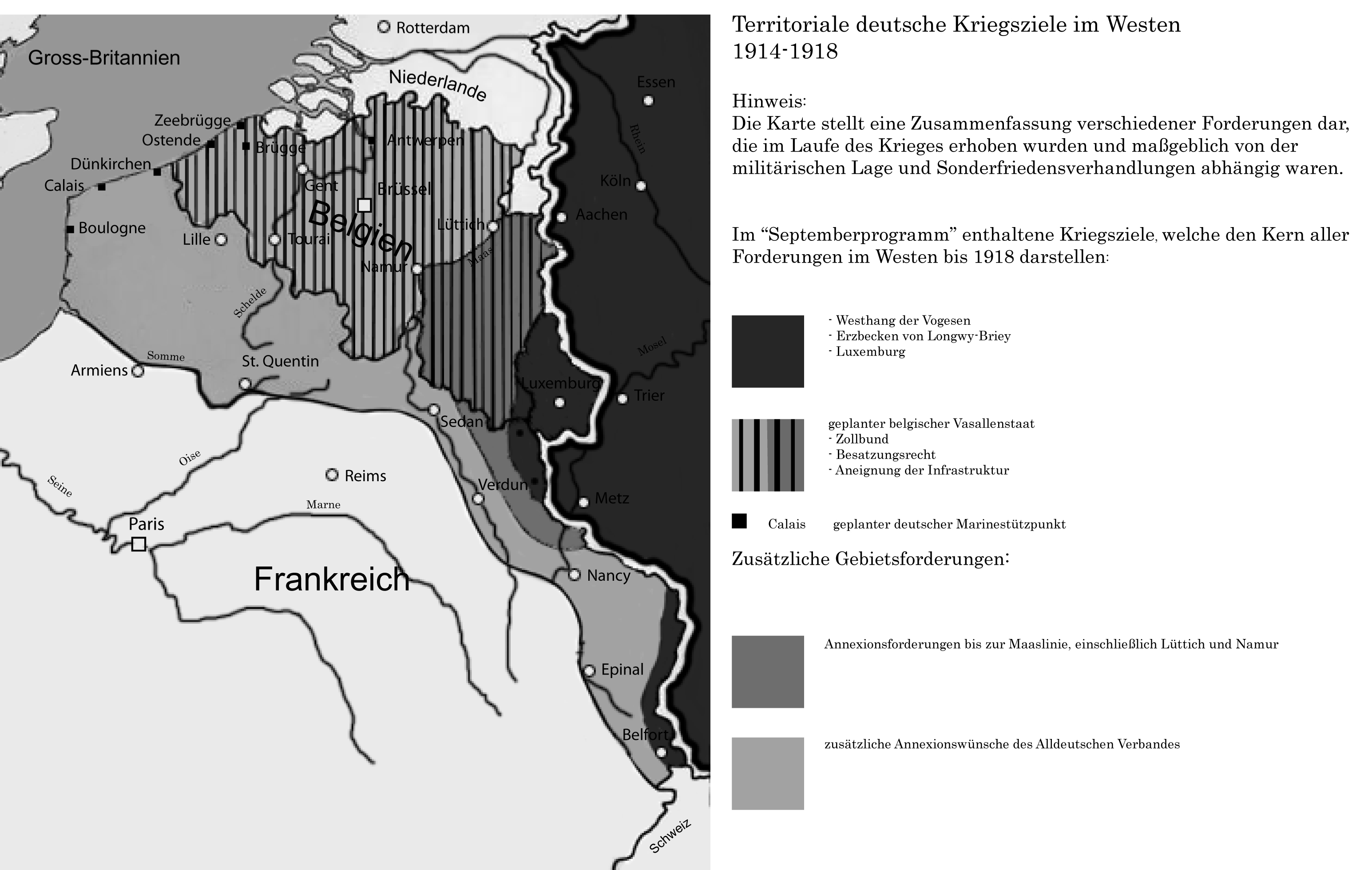 The waraims of the German Empire 1914-1918